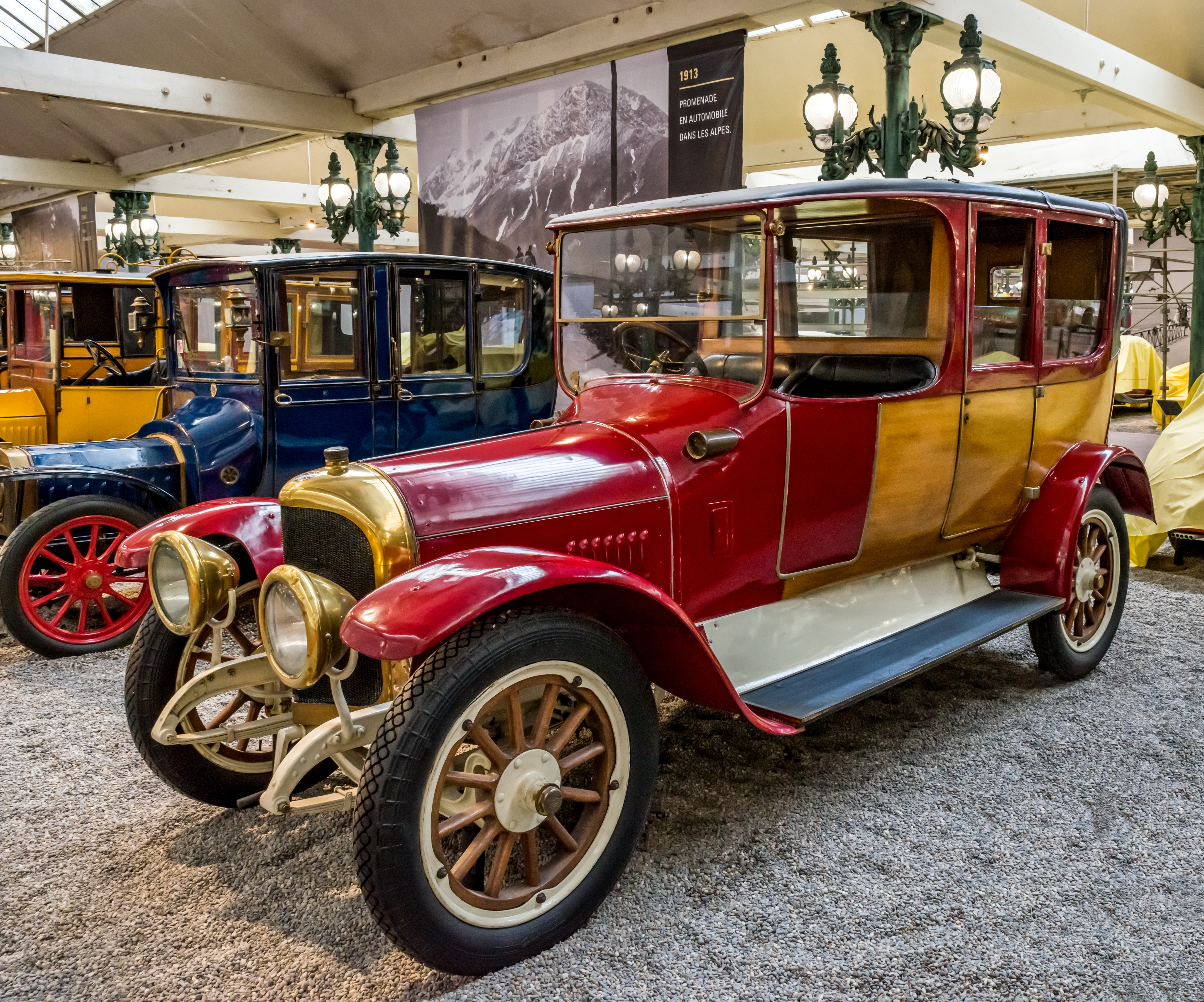 pictures from the Cité de l’Automobile – Musée National – Collection Schlump in Mulhouse, France ptictures from the 10. may 2018